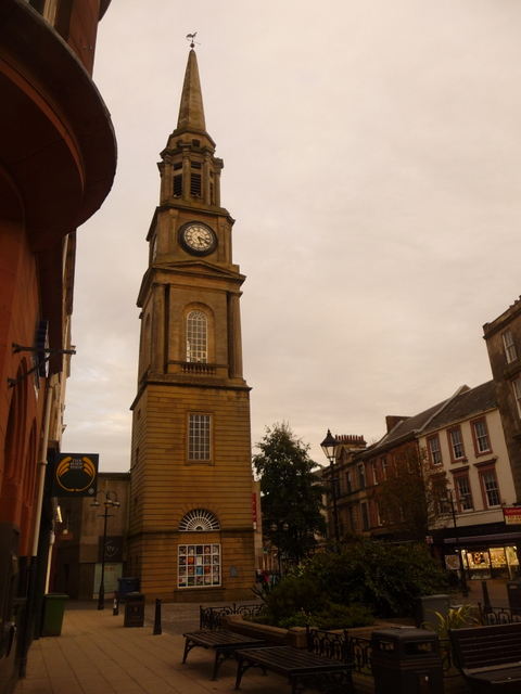 Falkirk: The Steeple The Steeple stands alongside the Market Place on the High Street and is the third to occupy the site. The first was a 16th or 7th century structure which was demolished in 1697 having become unsafe. The second suffered from serious subsidence after its foundations became damaged – it was demmolished in 1803. The current structure cost £1,460 to erect in 1814. It was designed by David Hamilton and built by Hanry Taylor using sandstone from the quarry at nearby Brightons. It is 140 feet high and, at ground level, is 22 feet square, and has not been without further difficulties: The upper 40 feet of the tower were replaced after being struck by lightning in June 1927. A horse belonging to Barr & Co., aerated water manufacturers, was killed by the falling masonry and its driver injured. The town jail was once housed within The Steeple, and two cells on the upper floors, accessed by a narrow spiral staircase, survive.